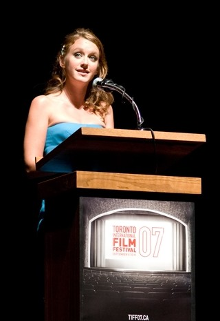 Ludivine Sagnier introducing Claude Chabrol's film A Girl Cut in Two at the Toronto International Film Festival 2007.